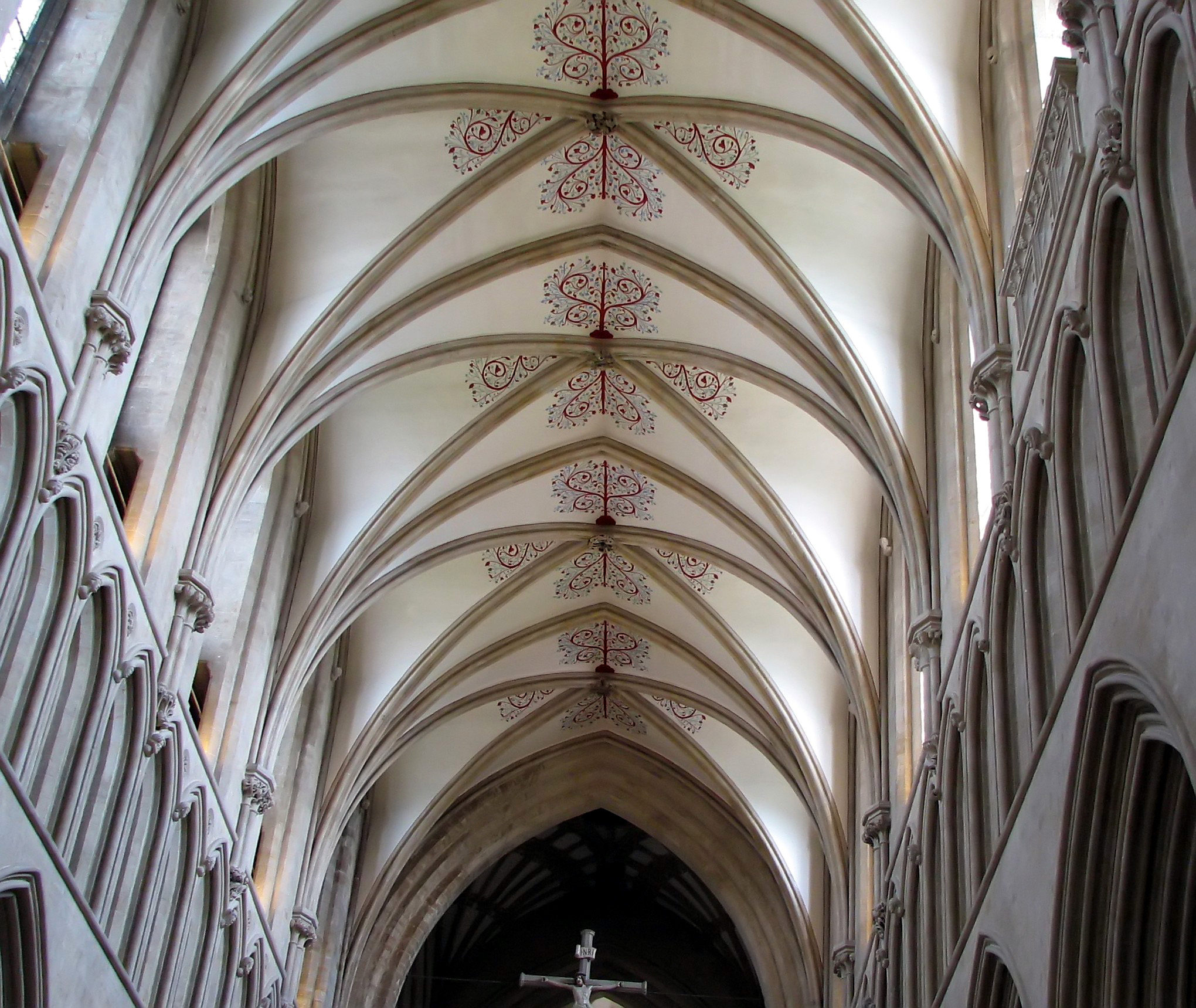 The vault of the nave of Wells Cathedral, Wells, Somerset, England Photographed by Adrian Pingstone in July 2006 and placed in the public domain.